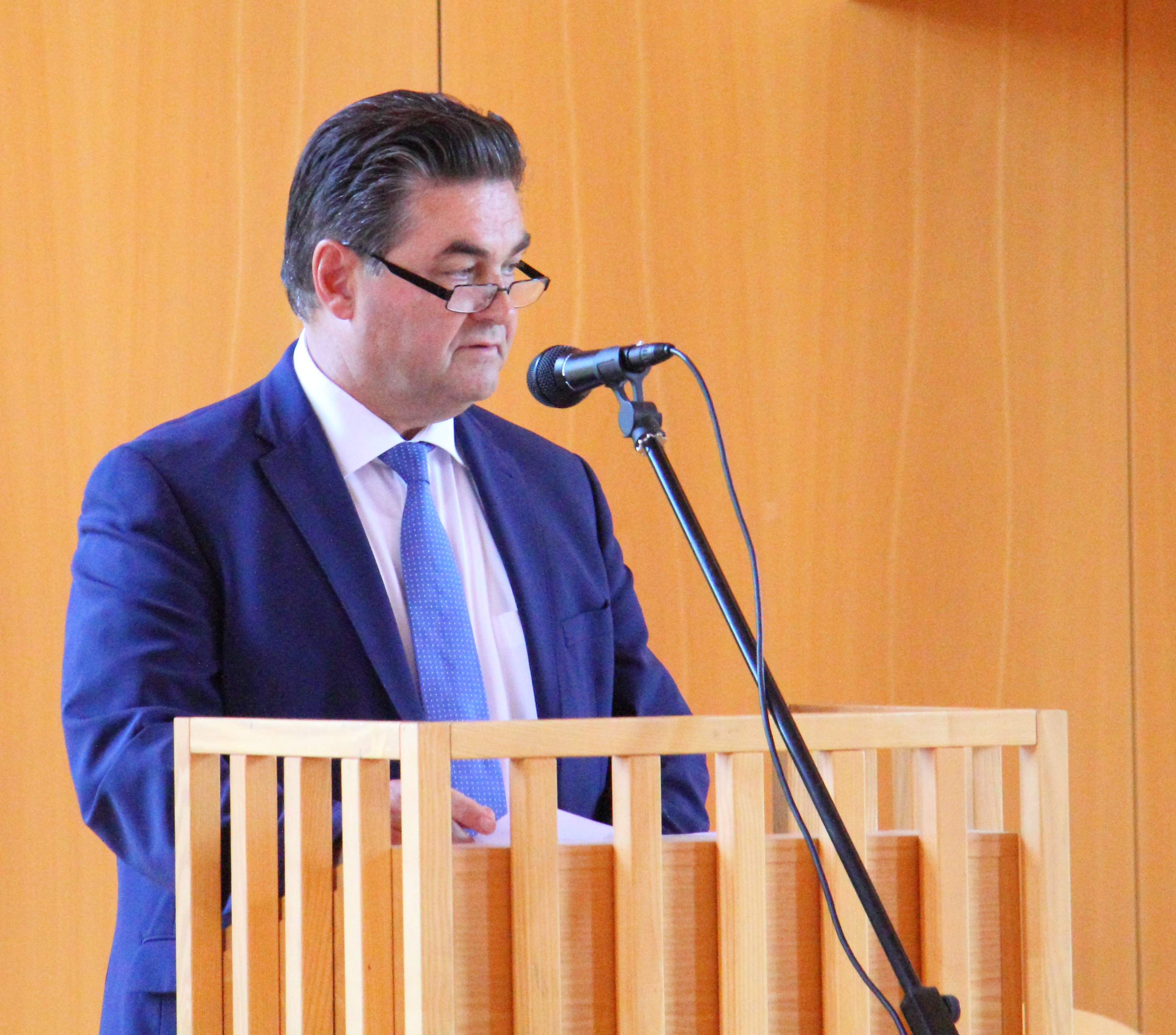 Klaus Herzog, Lord Mayor of Aschaffenburg City in Bavaria/Germany (in 2017)